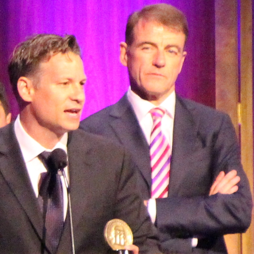 Bill Neely (right) listens as Richard Engel accepts a Peabody Award on behalf of their news team.